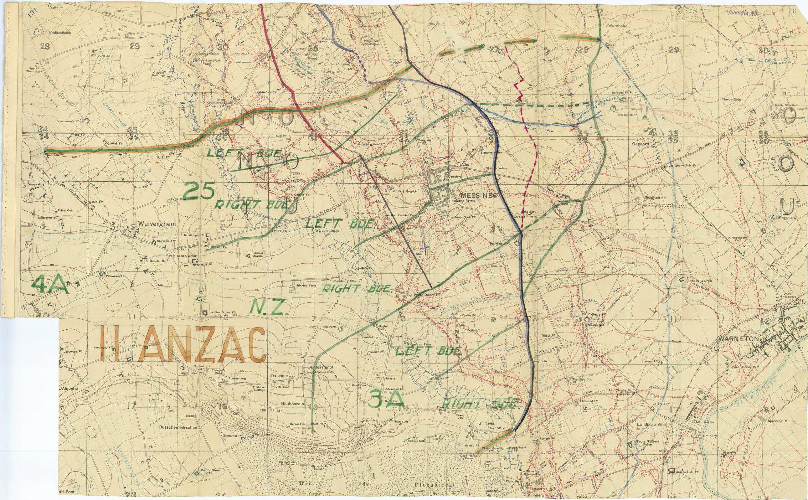 Battle of Messines. Map showing the attack plan of the II ANZAC Corps. Zones of responsibility are broken down to the brigade level. Multiple objective lines also shown..